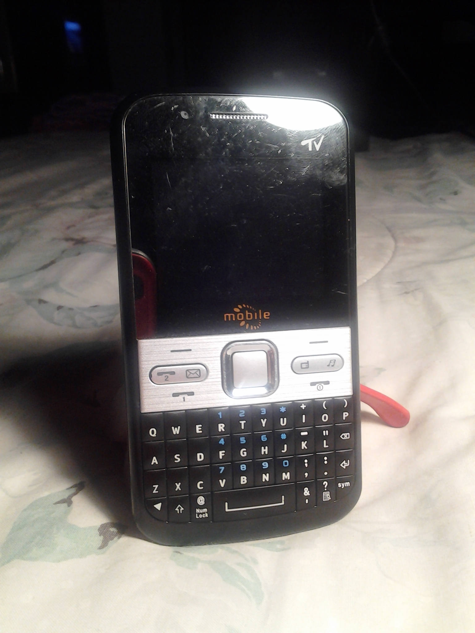 Generic Q5 cellphone from China